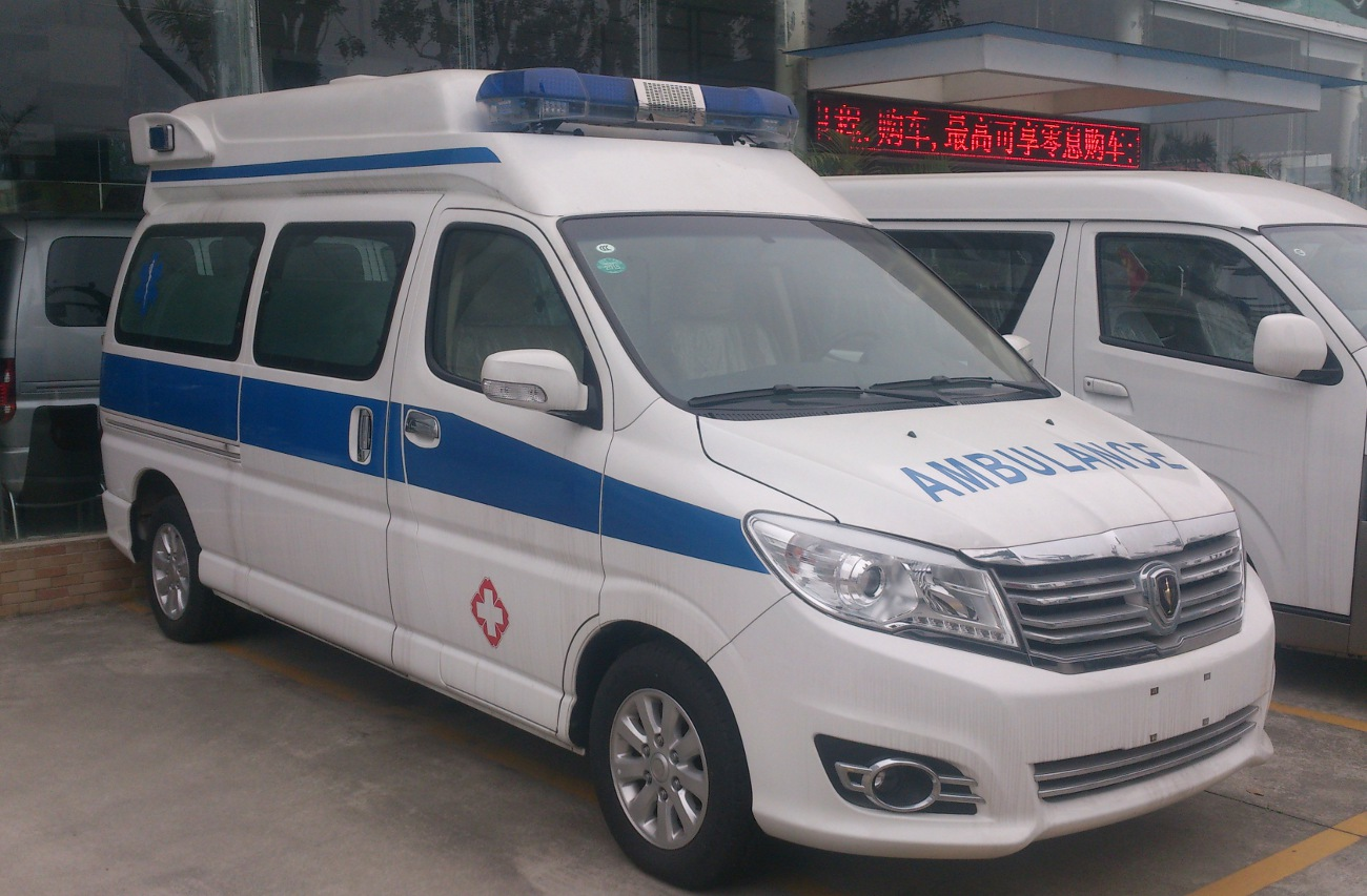 Jinbei Granse LWB facelift III Ambulance photographed in Zhanjiang, Guangdong province, China.